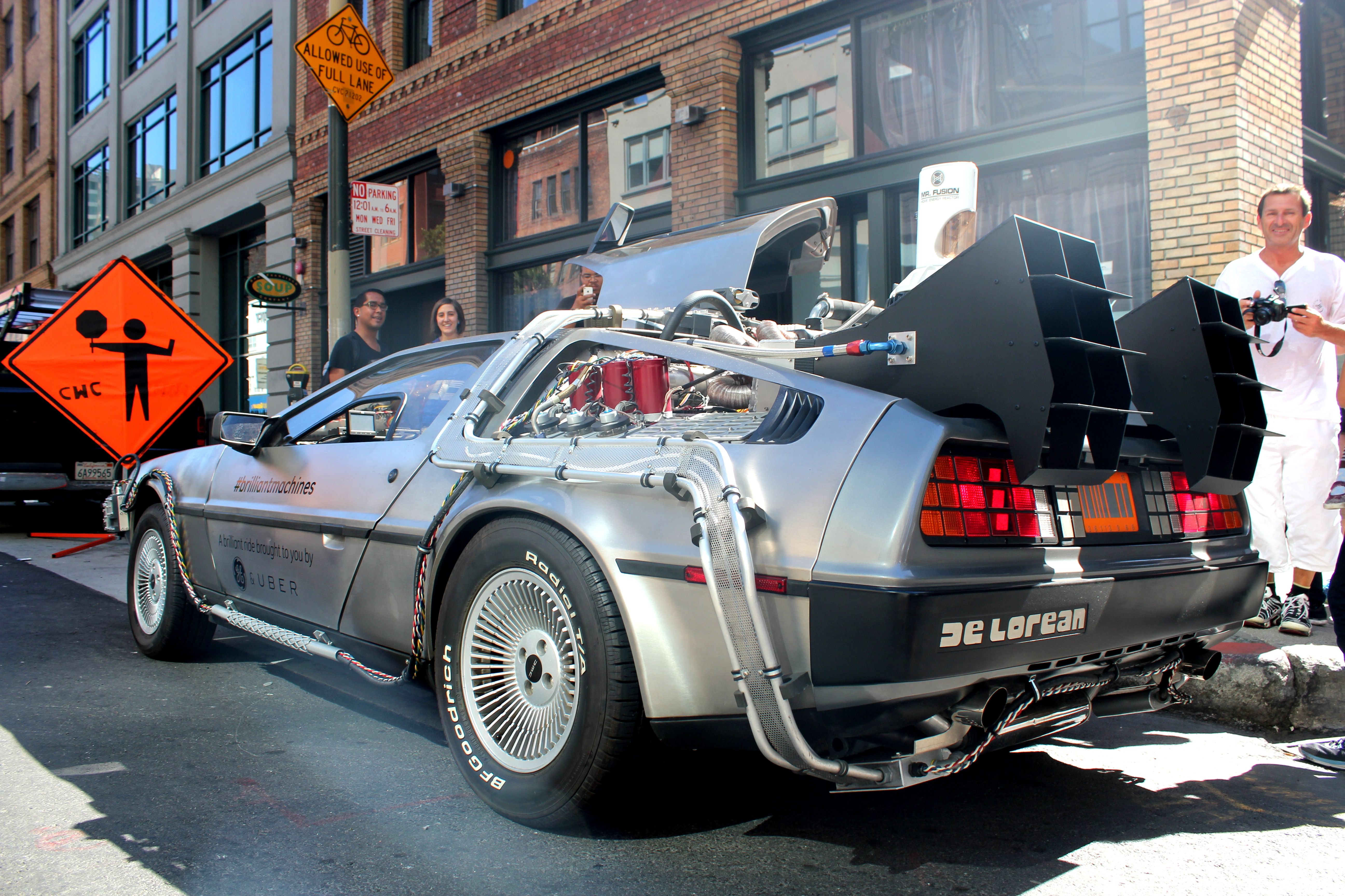 Replica Delorean DMC-12 Time Machine in San Francisco.